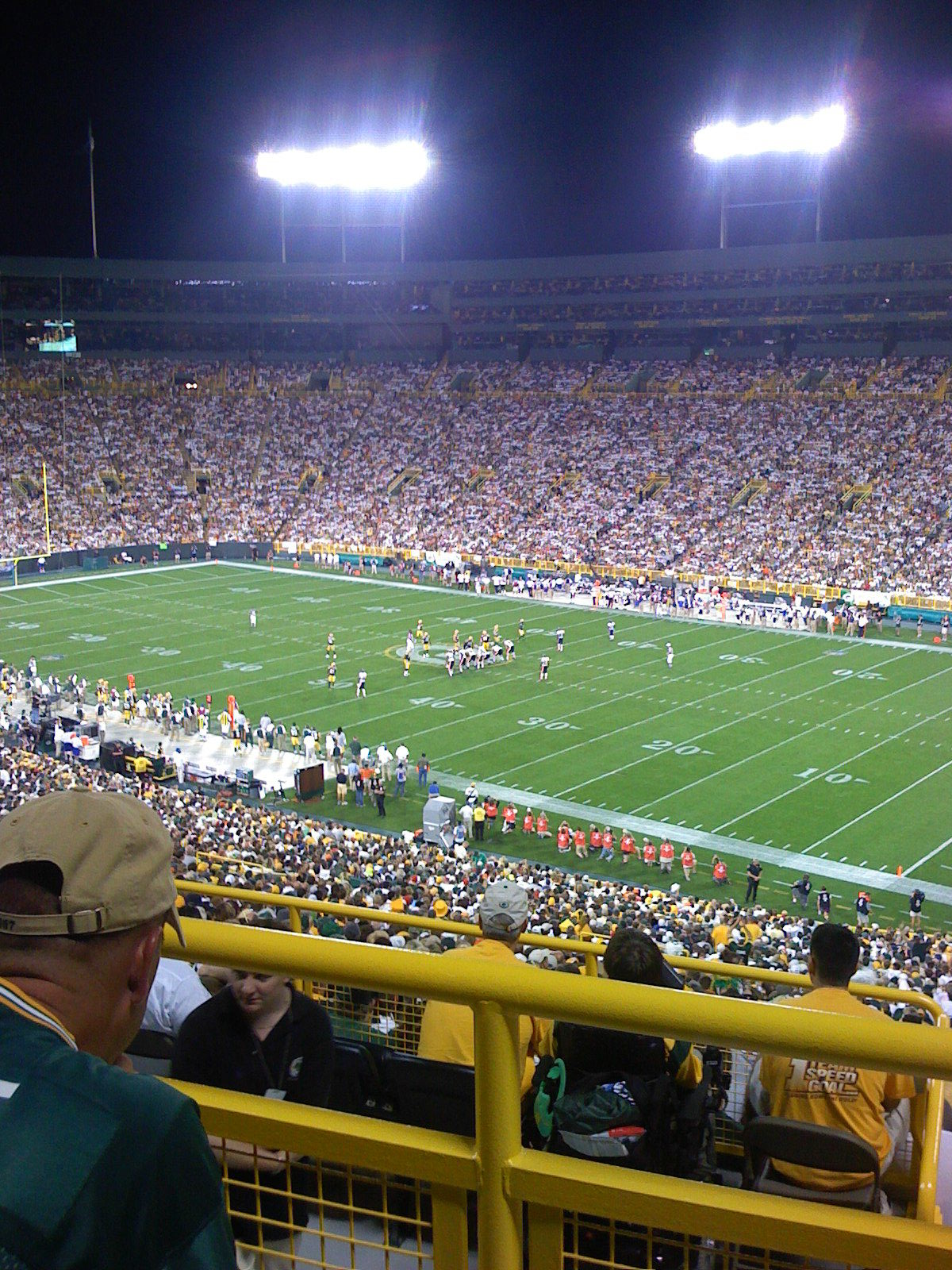 Chicago Bears at Green Bay Packers at Lambeau Field in Green Bay, Wisconsin on Oct 7th, 2007.